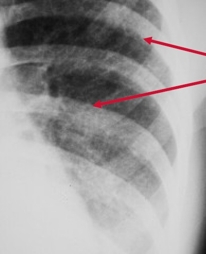 Chest X-ray showing peribronchial cuffing.